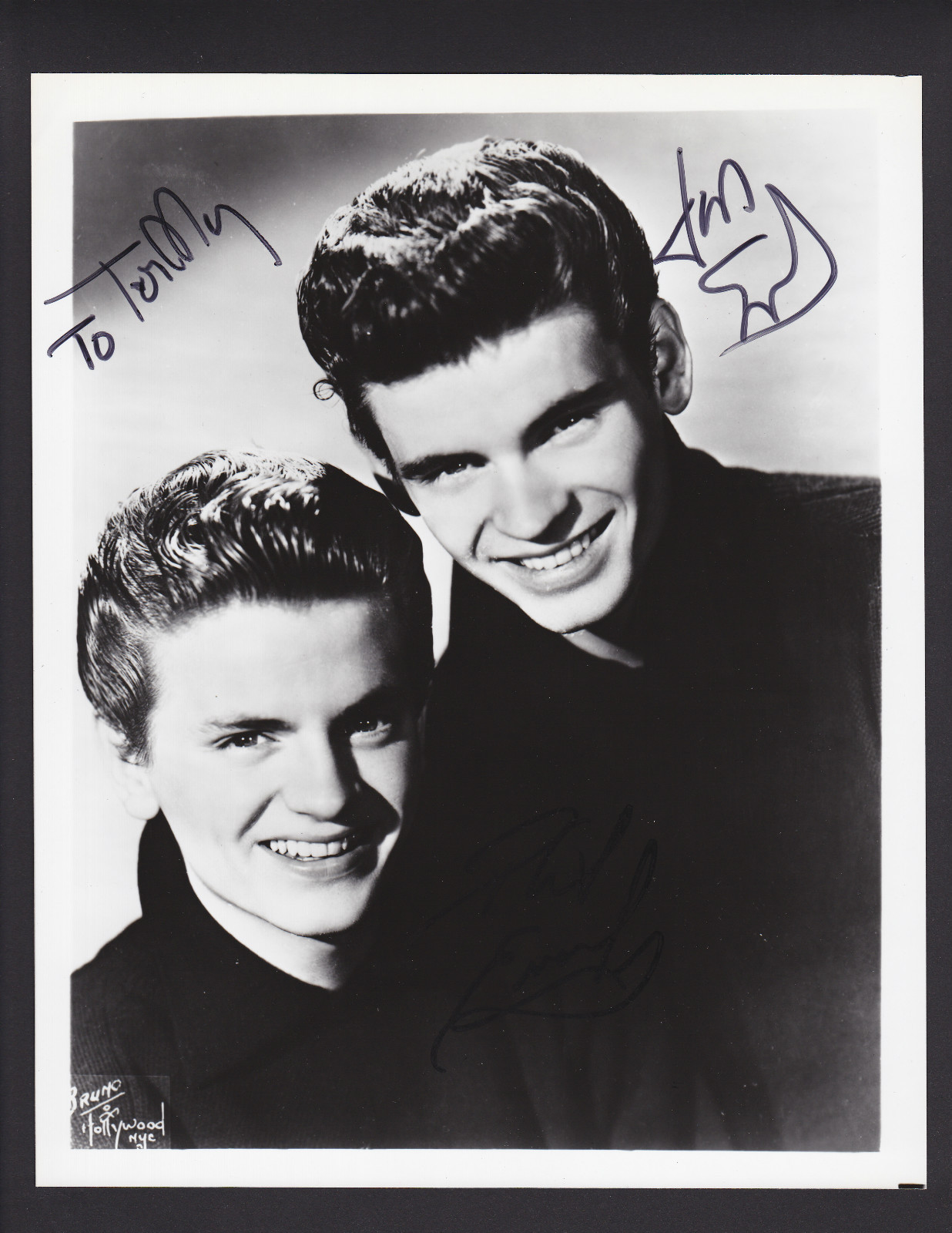 The Everly Brothers, Phil (left) and Don (right), in a publicity portrait for Cadence Records.